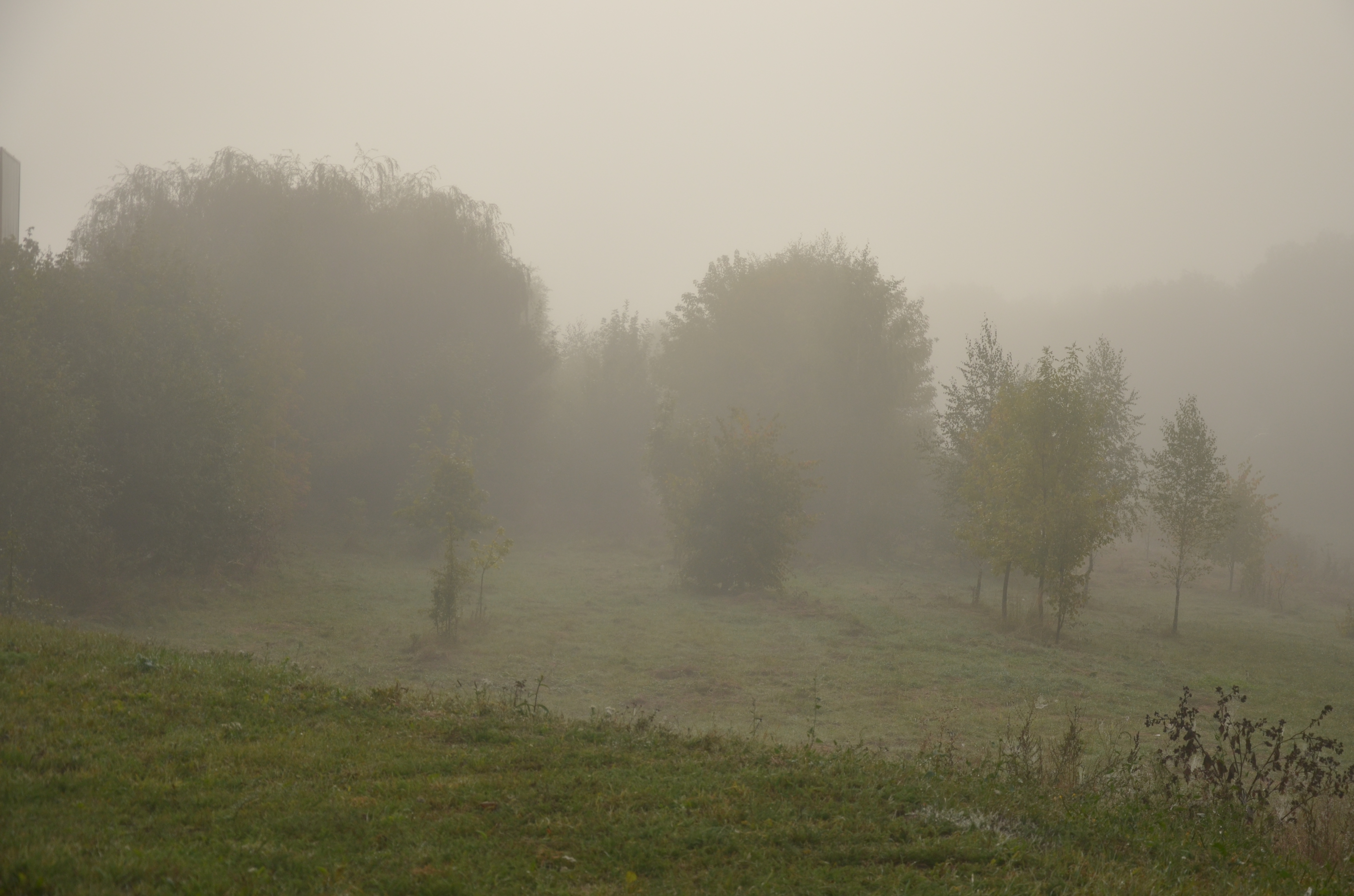 Fog occurs for several reasons. It can be formed through evaporation from the warm water, or in the case of cooling air to a temperature that is below the dew point. Fog is an atmospheric phenomenon. It is caused due to accumulation of condensation products. Fogs often occur in urban areas than in areas beyond. This is due to the high content of hygroscopic condensation nuclei that are in the air.